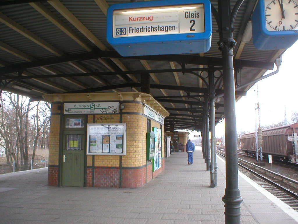 platform of the Berlin train station Köpenick, Berlin, Germany